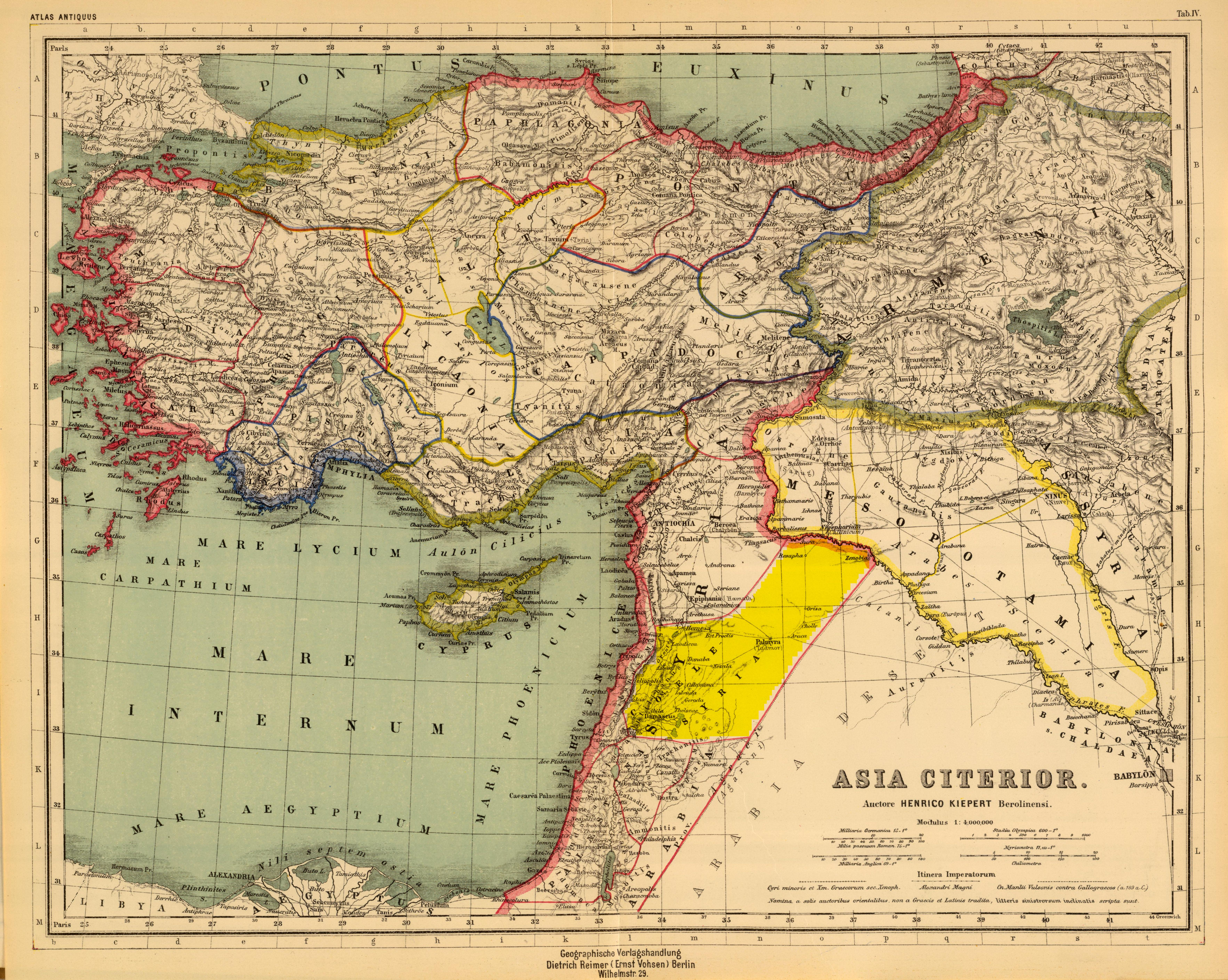 Coele Syria locator map noted with yellow background, from Asia citerior. Auctore Henrico Kiepert Berolinensi. Geographische Verlagshandlung Dietrich Reimer (Ernst Vohsen) Berlin, Wilhemlstr. 29. (1903)